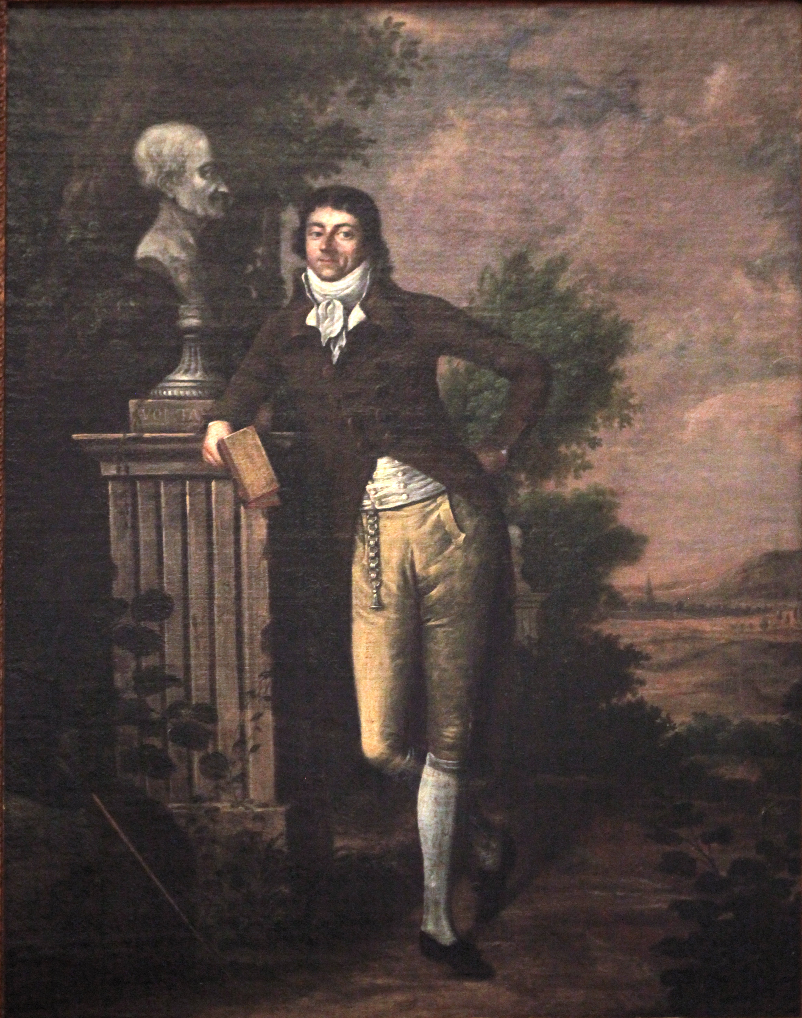 Portrait of Dominique Joseph Garat, Sarrebruck, 1794. Purchased in 1986.